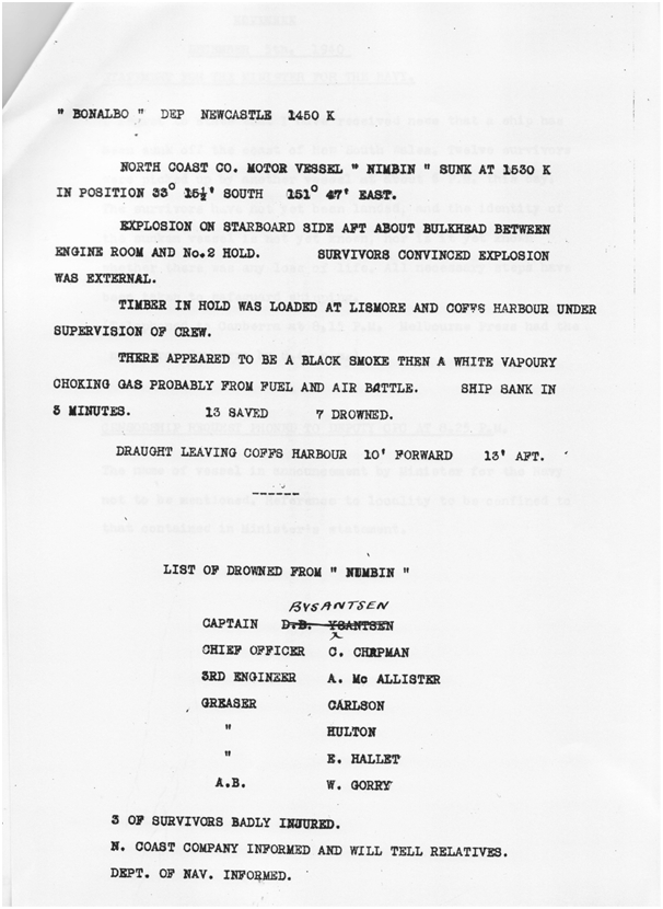 Telegram Report into the loss of the MV Nimbin 1927 to 1940